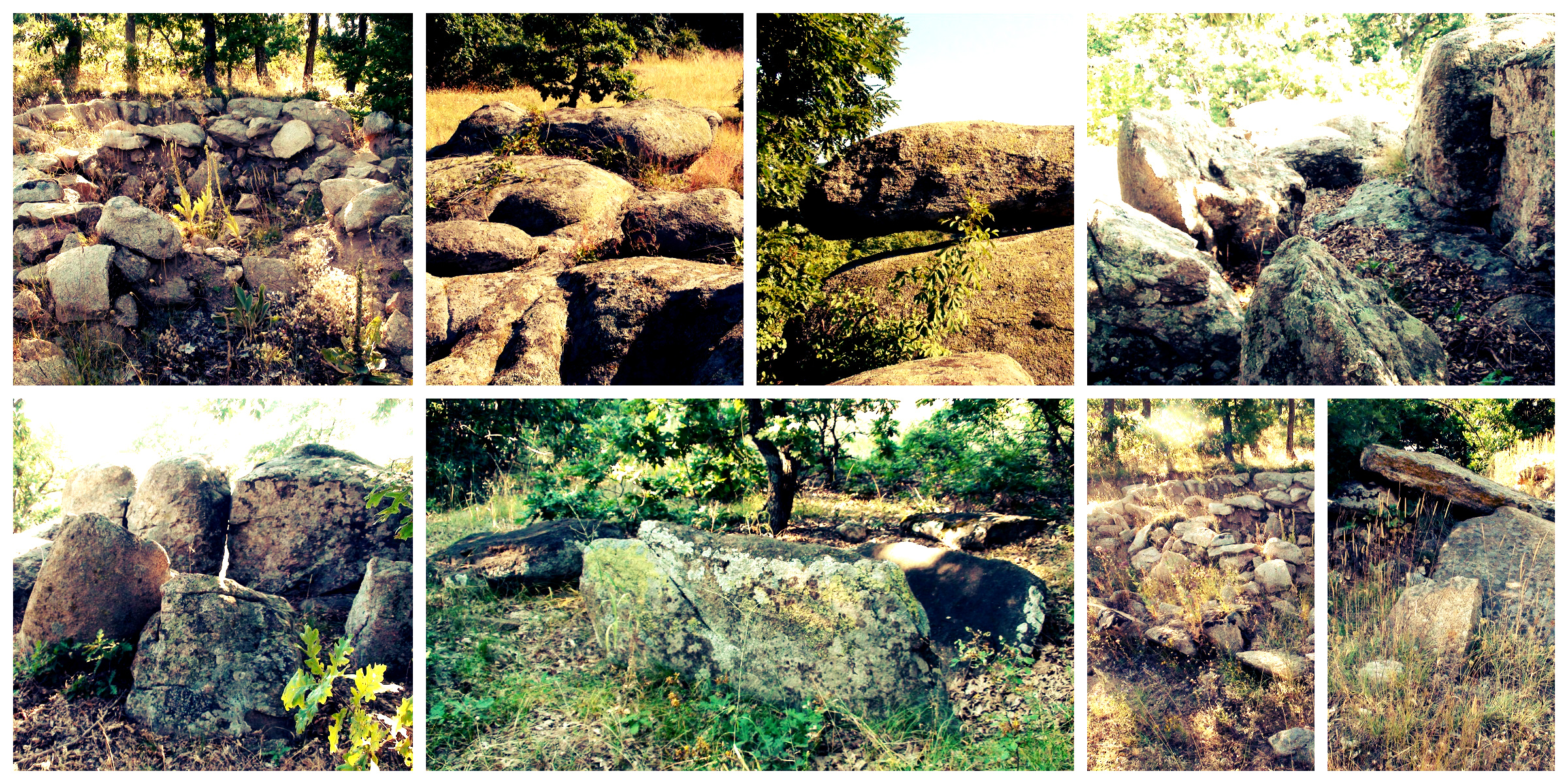 Golemiat Kayryak Sakar BG